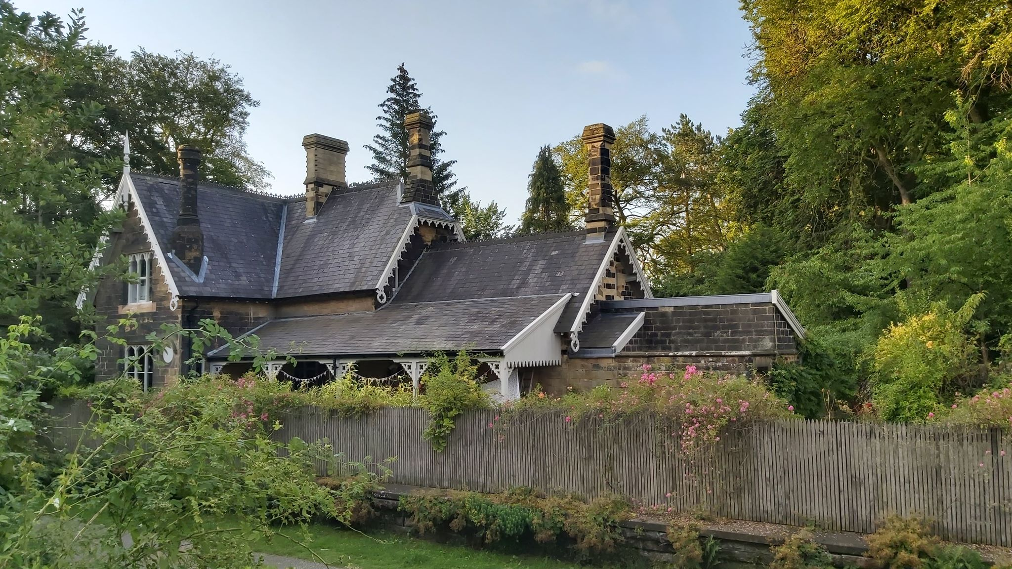 The station building and Matlock platform at Great Longstone for Ashford station. The trackbed is part of the Monsal Trail and the station building is a private residence.